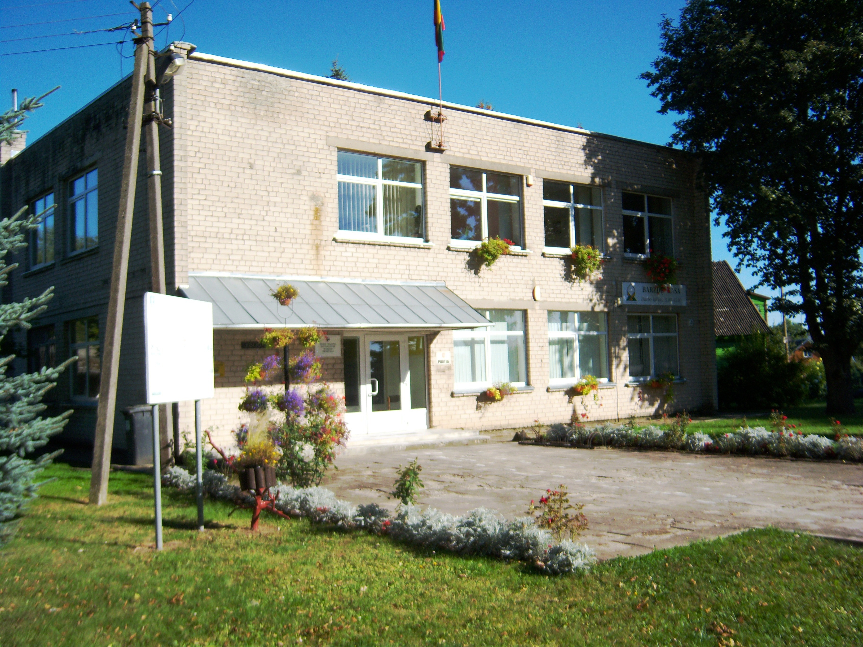 Barzdai, eldership, Šakiai District, Lithuania